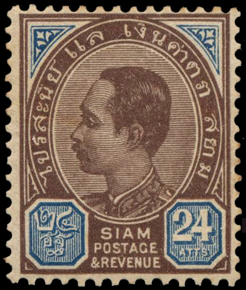 Postage stamp of Siam (Thailand), king Rama V, 1899, 24 atts, scott#87